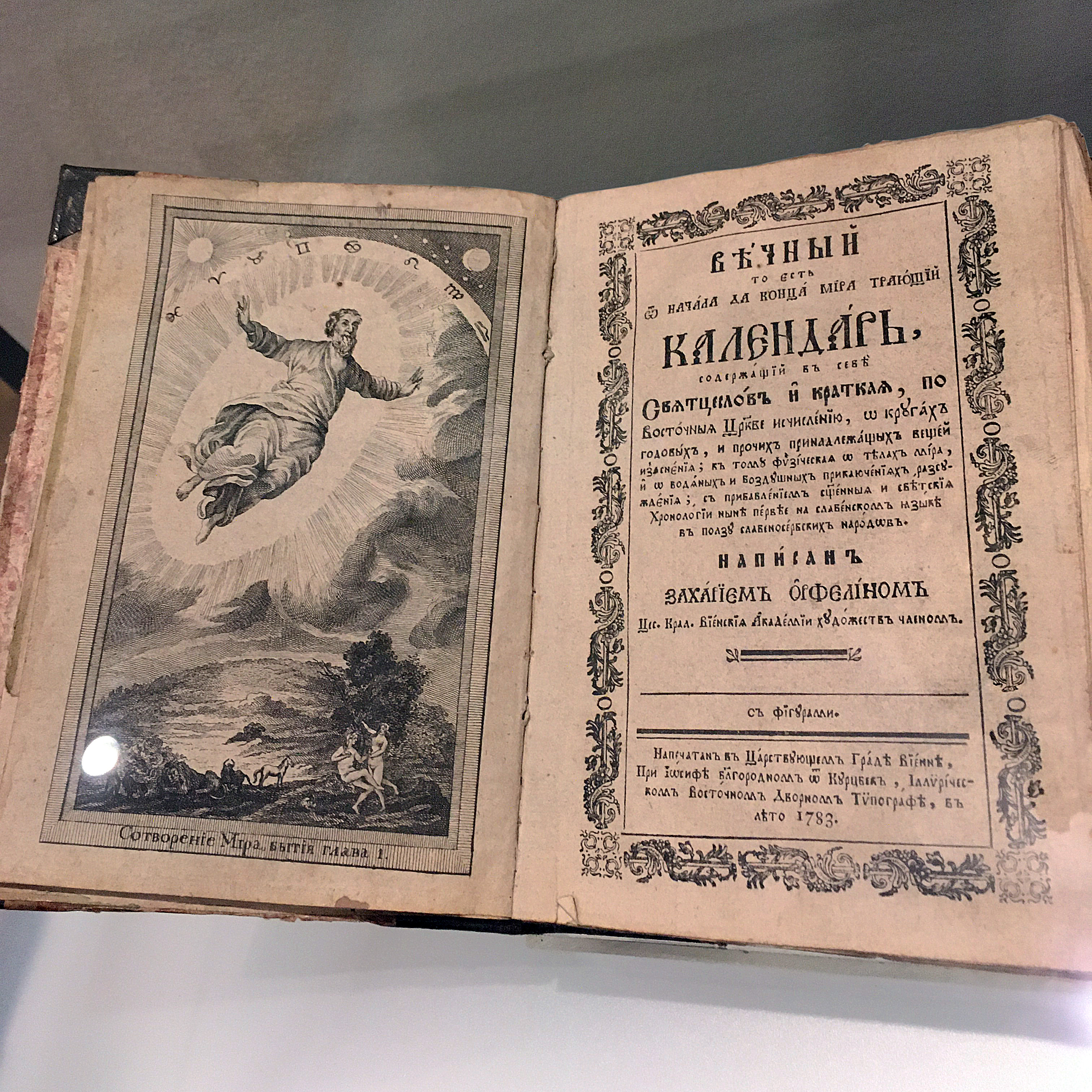 The illustration Creation of the World and the title page of the book Eternal Calendar by Orfelin, 1783. (Manak's House, Belgrade)